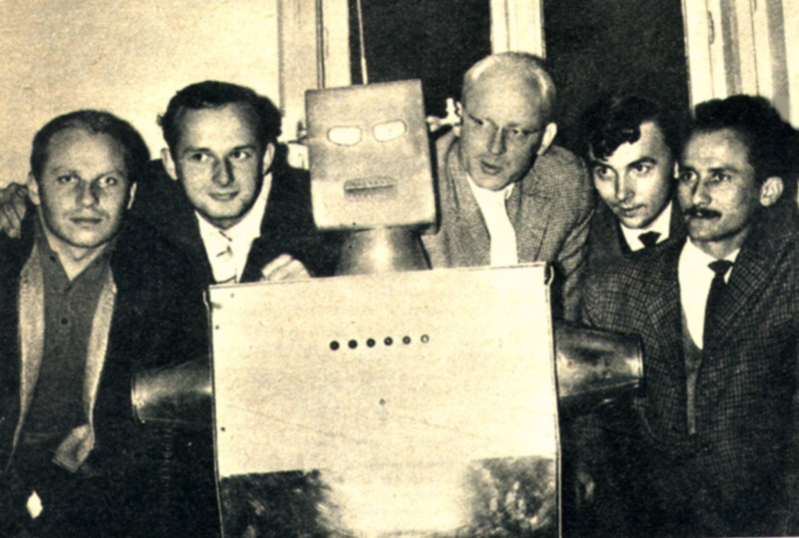 Cybernetics group team with their robot TIOSS on Zagreb ETH university, Branimir Makanec is the first right next to robot